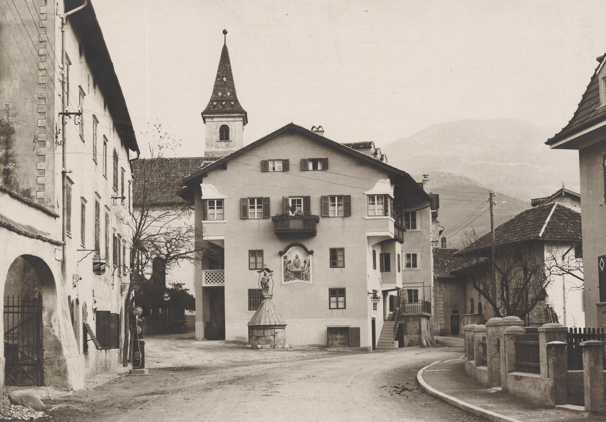 Historical photograph of the Rentsch quarter in Bozen-Bolzano from around 1925